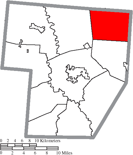 Map of the municipal and township boundaries of Fayette County, Ohio, United States, as of the 2000 census, with the location of Madison Township highlighted. Township borders are shown only in unincorporated areas in order to differentiate incorporated and unincorporated areas more clearly.